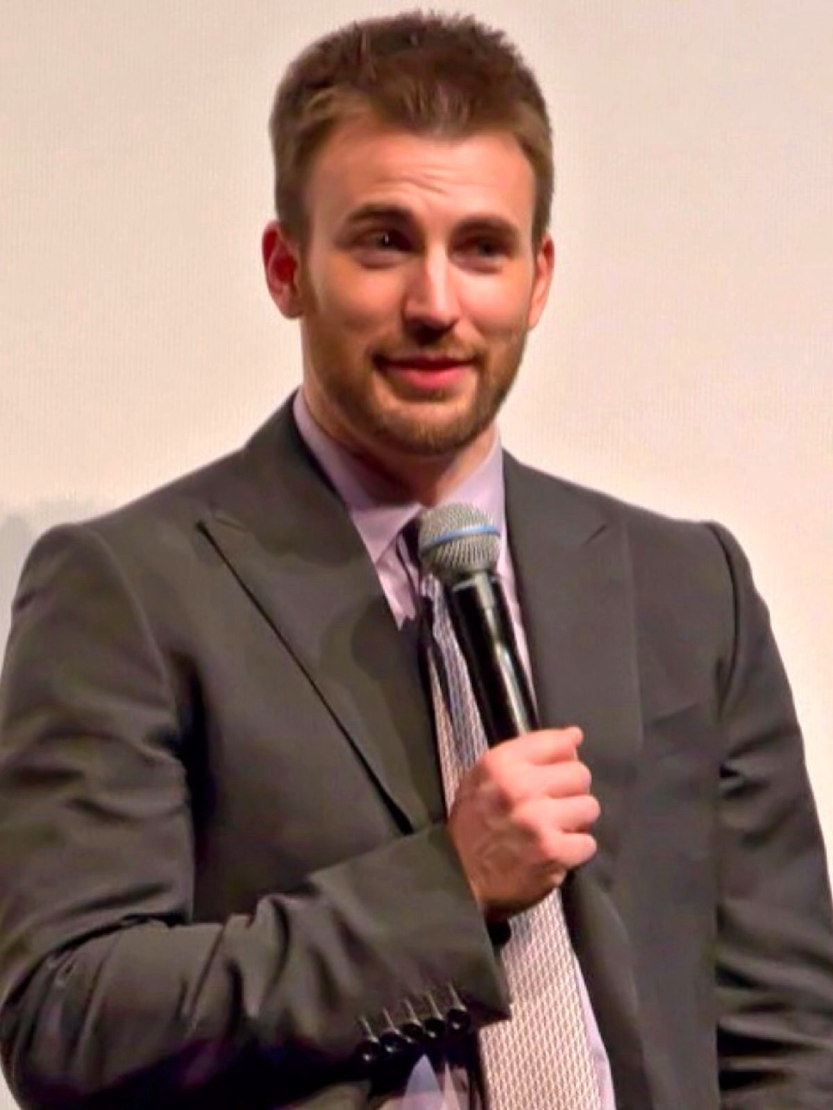 Chris Evans at the Toronto International Film Festival 2012.